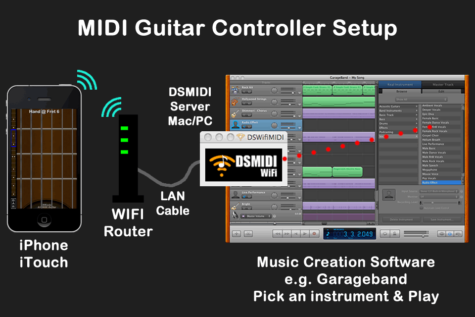 pic of setup of a+ midi guitar controller